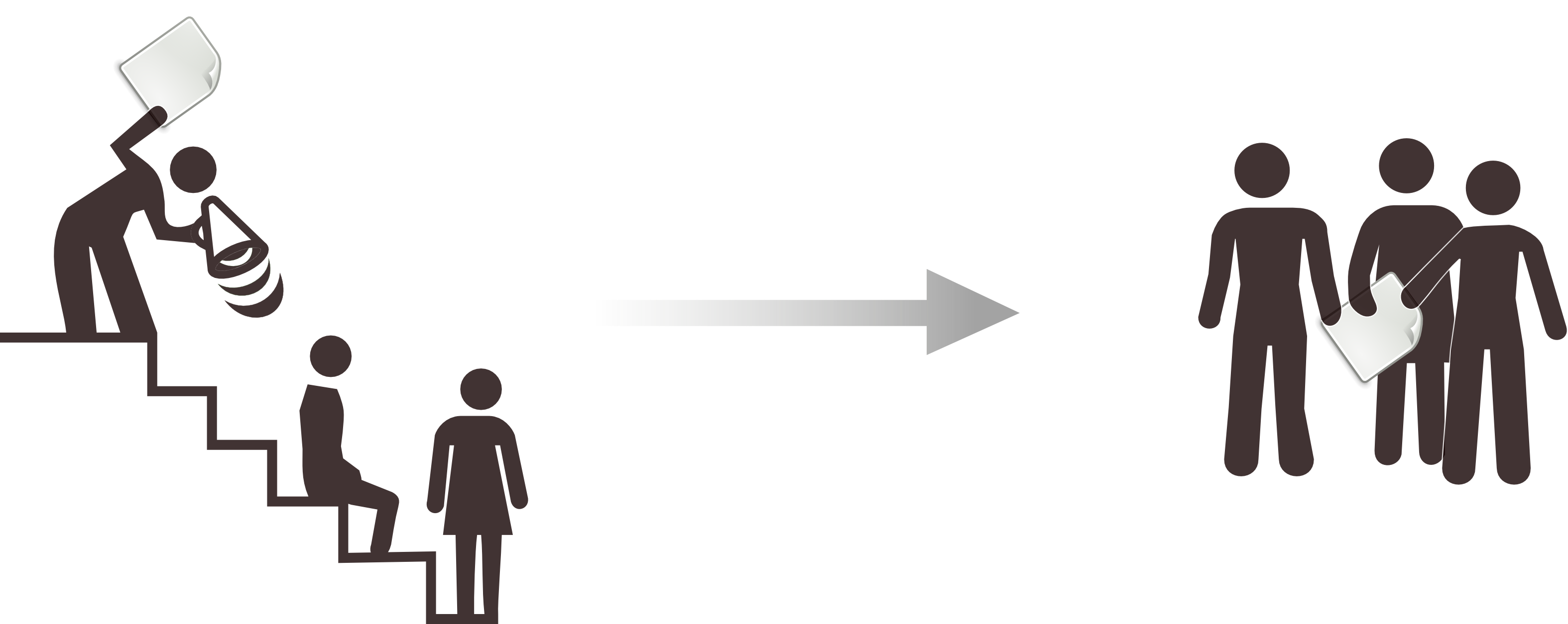 From left to right: From traditional website to wiki or similar open website. Traditional websites with no version history and no fine-grained access rights can not allow extensive user interaction with the content. A few people will decide the content. Websites with version history and fine-grained access rights allow users to interact more freely with content and each other. Less administration.